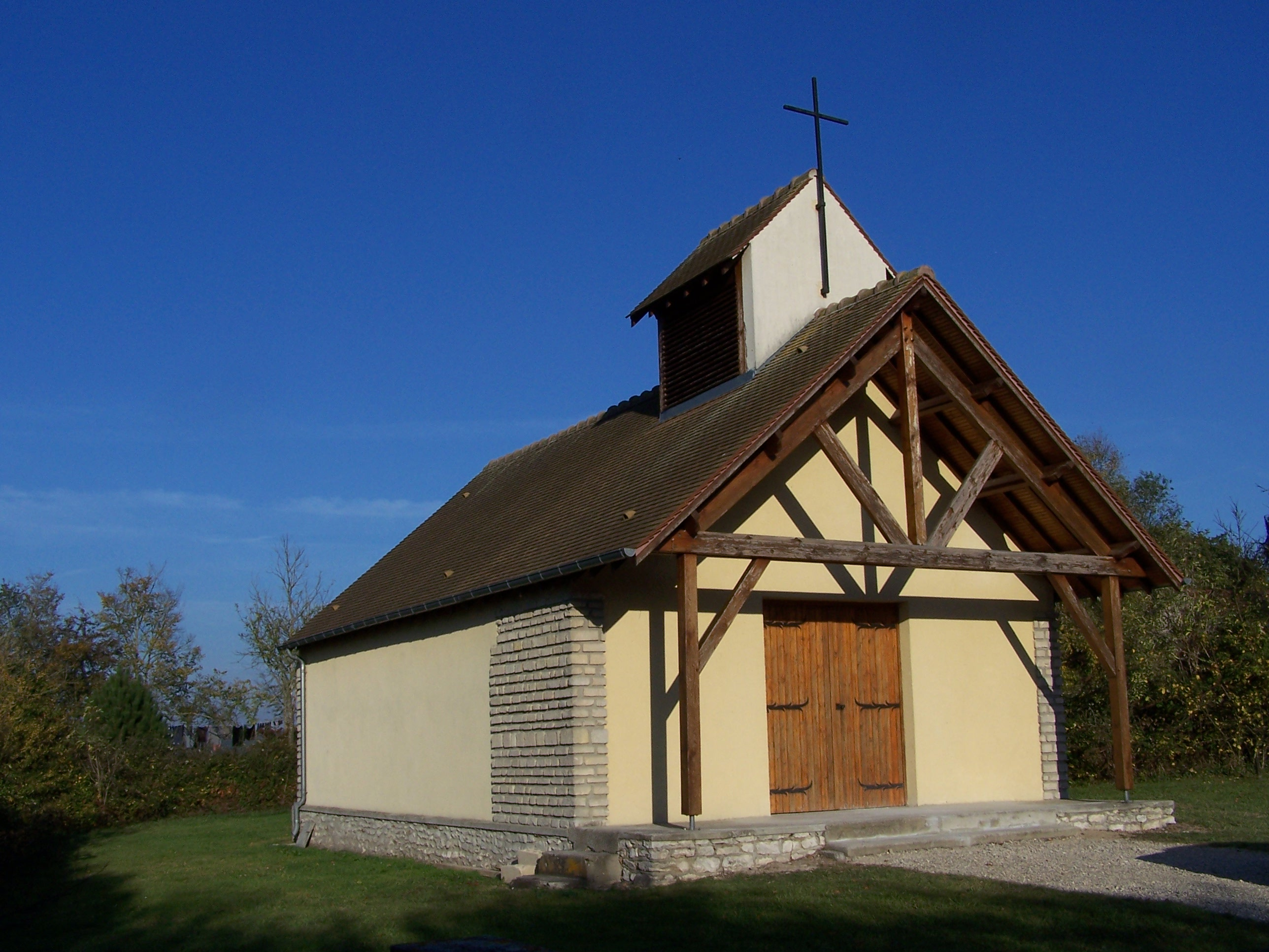 Church of Mulcent (Yvelines, France)